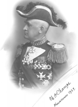 Charles Leon de Champs as Admiral in 1929.